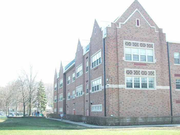 Bronxville public school looking southeast.